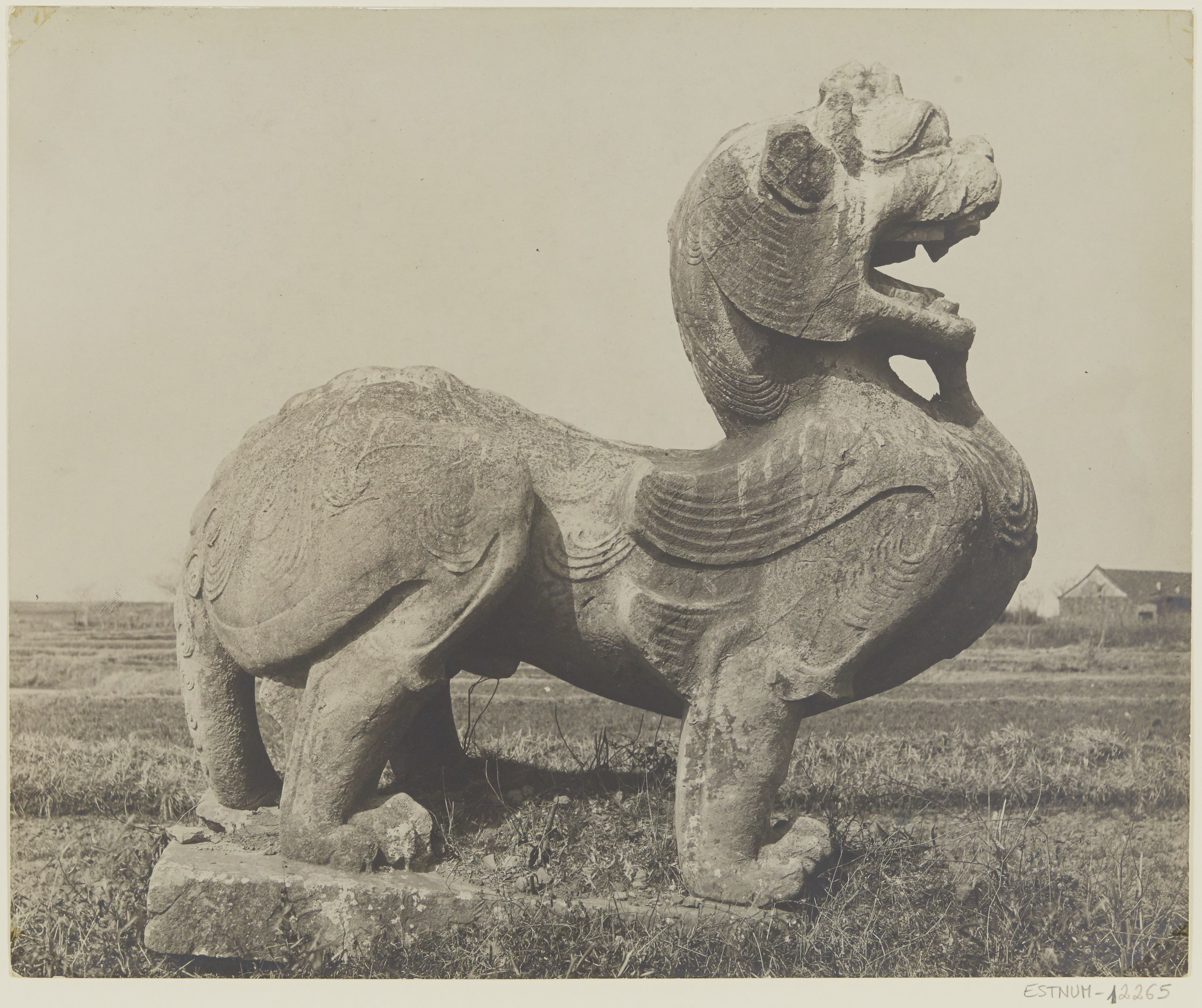 "Chimeras" at the tomb of Emperor Wu of Southern Qi (Xiao Ze) in Danyang（near Nanjing）